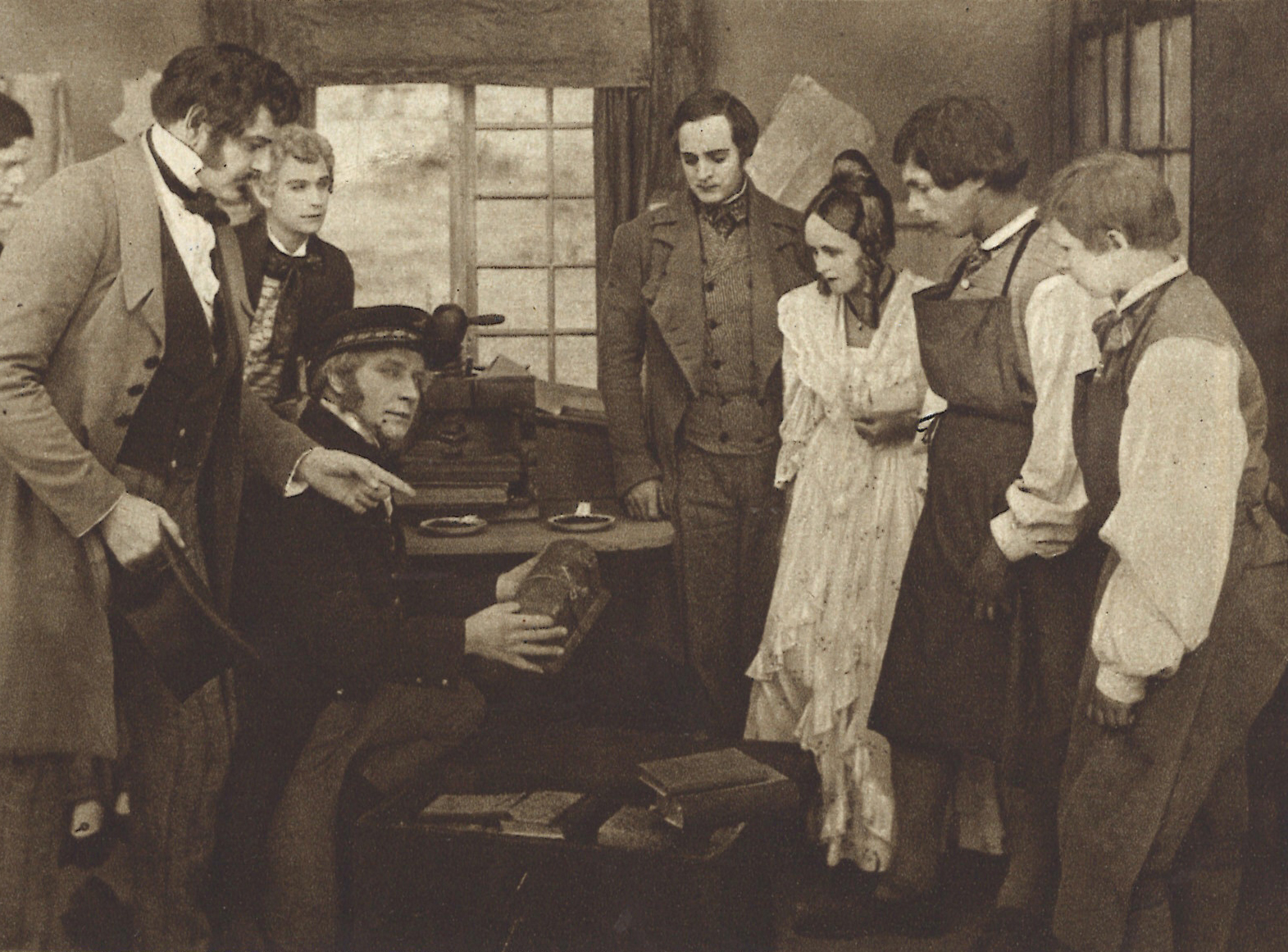 Scene from the Swedish silent film Ett köpmanshus i skärgården (film) (1925). In the middle, kneeling is actor Ivar Kalling as "Captain Geistern".